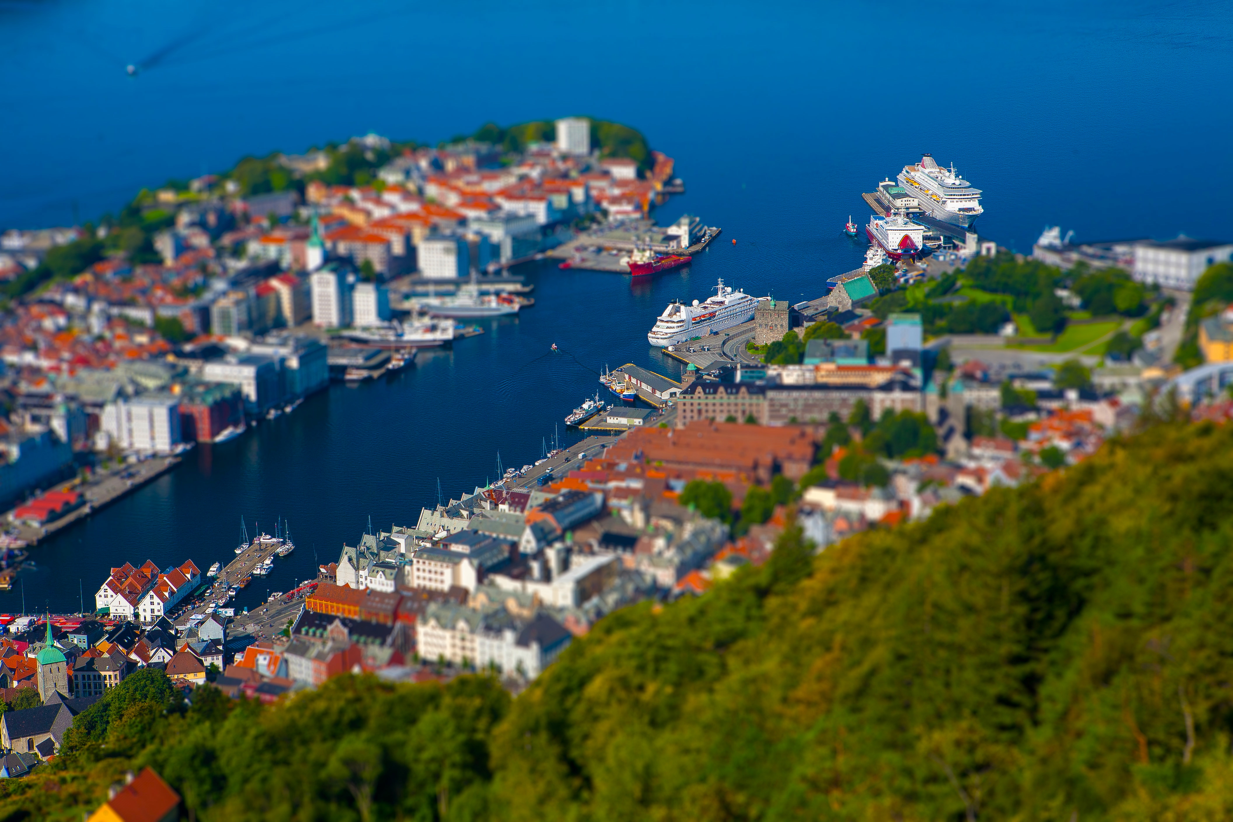 Taking a break from the Maui shots for a while, we go back a few years to our trip to Norway.